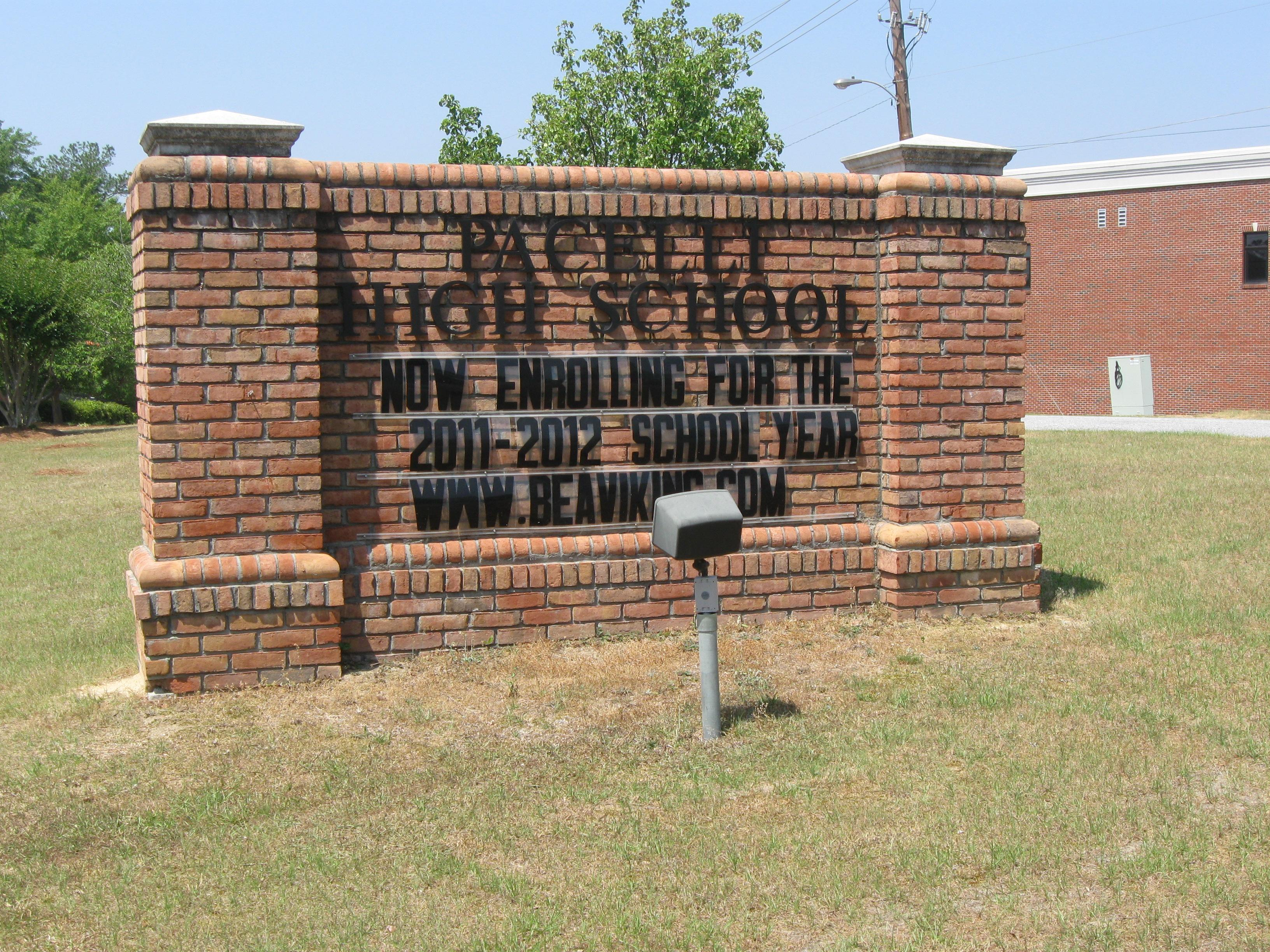 St. Anne‒Pacelli Catholic School original Pacelli High School sign. 2011-05-22.